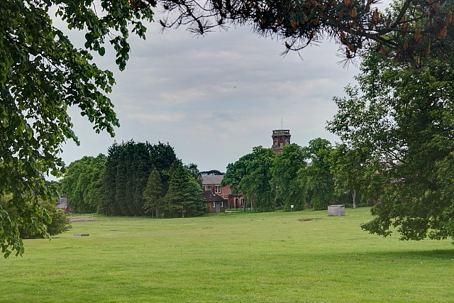 Cottingwood Common